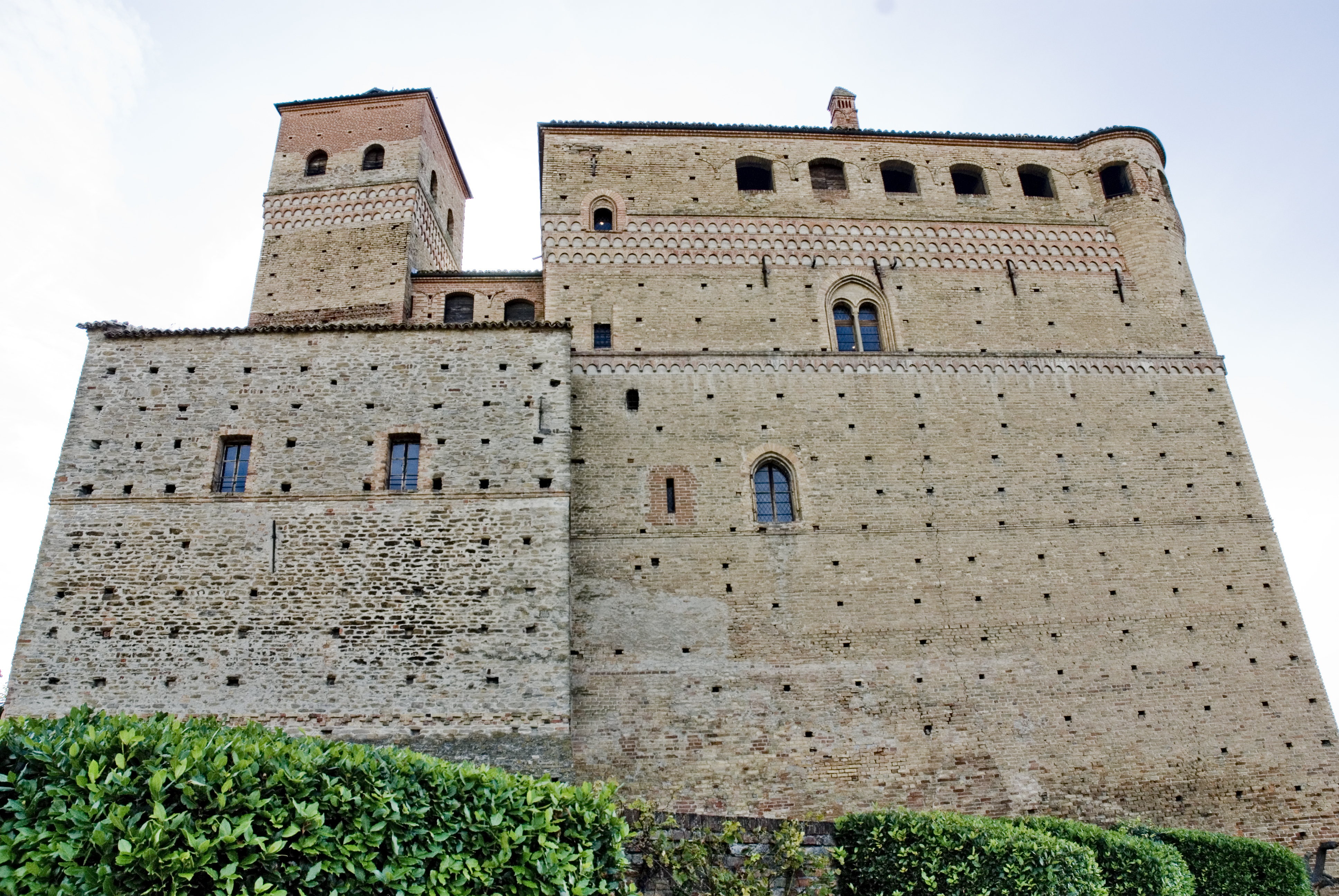 Castel of Serralunga d'Alba.